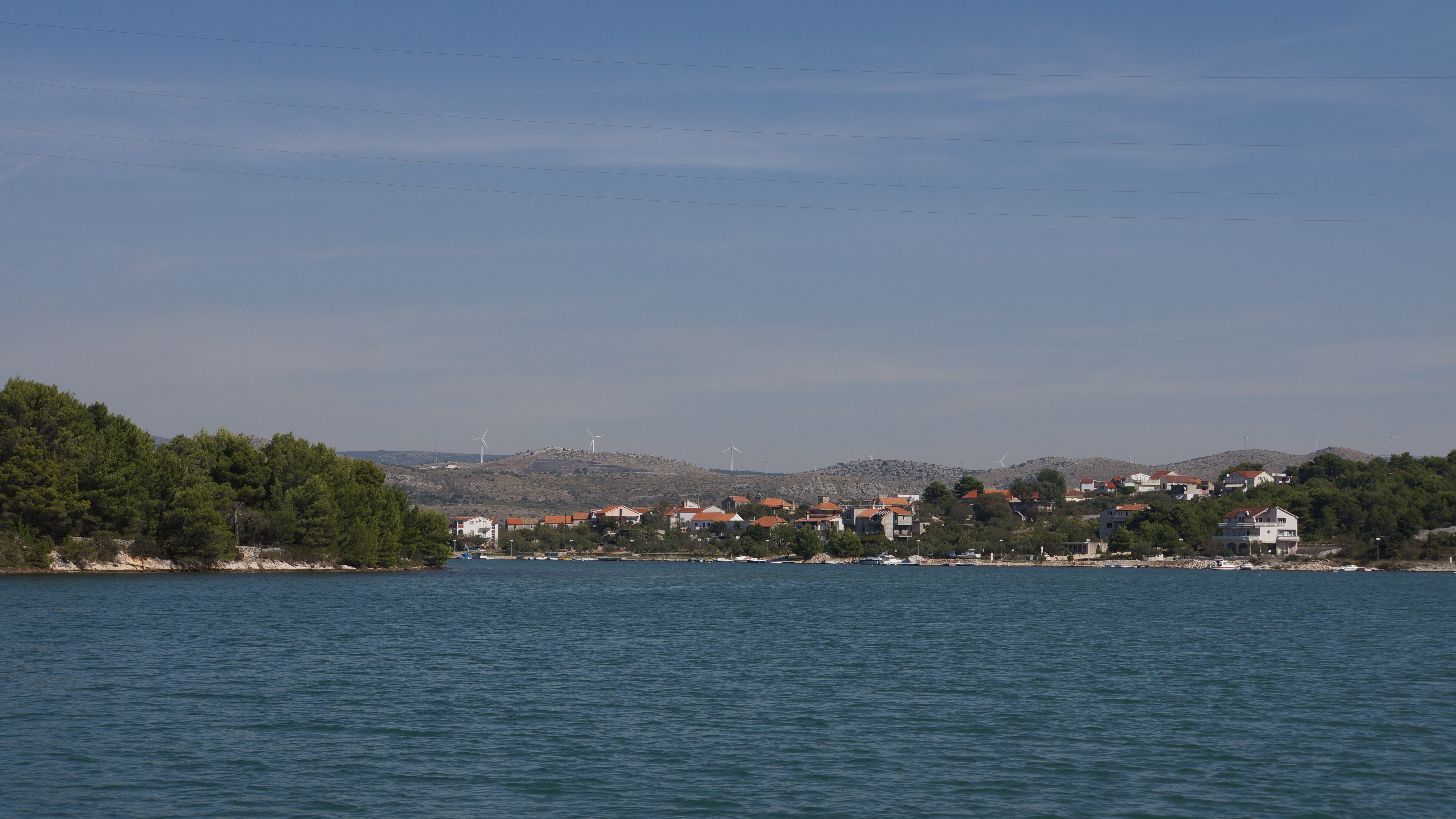 Morinjski Zaljev, view towards the village of Jadrtovac